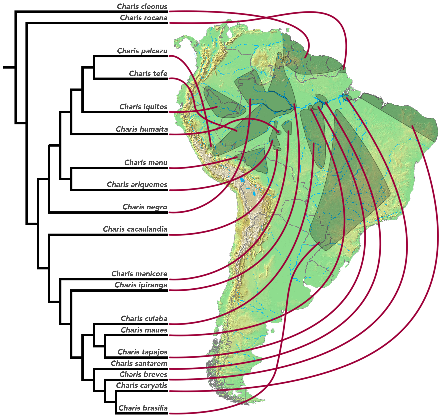 A phylogenetic tree of Charis butterflies and their geographic ranges in South America. Adapted from Hall and Harvey (2002).[1]